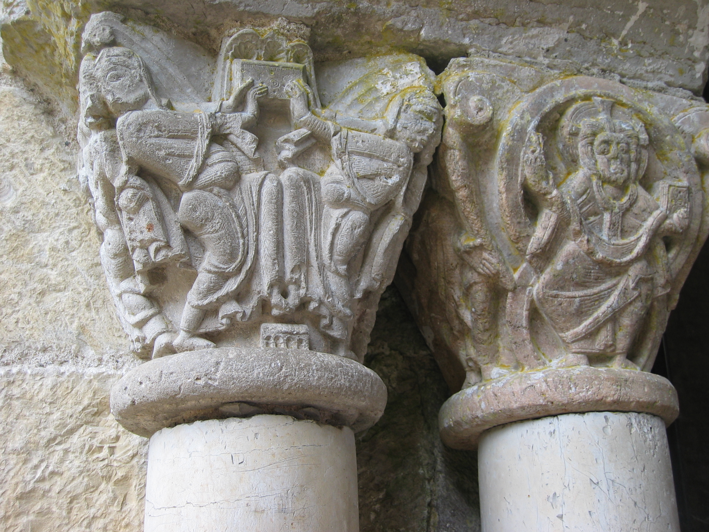 Detail of the Abbey of Marcillac-sur-Célé Marcilhac-sur-Célé, in the Lot departement of France